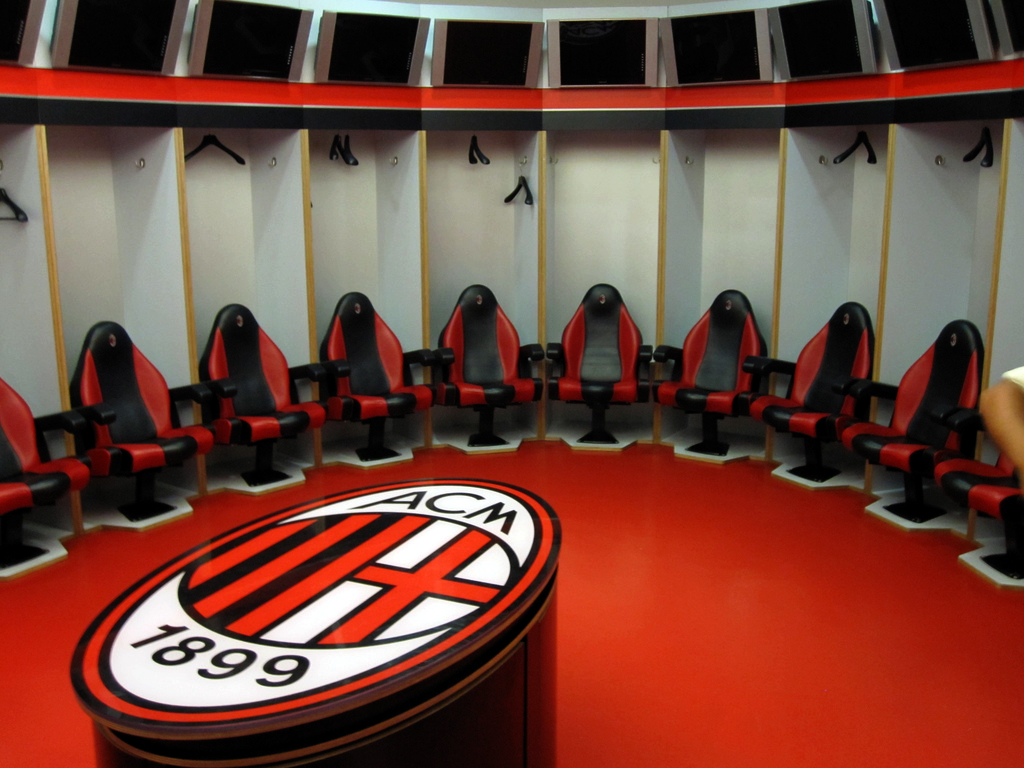 Dressing room of AC Milan, in Giuseppe Meazza Stadium (San Siro) Milano